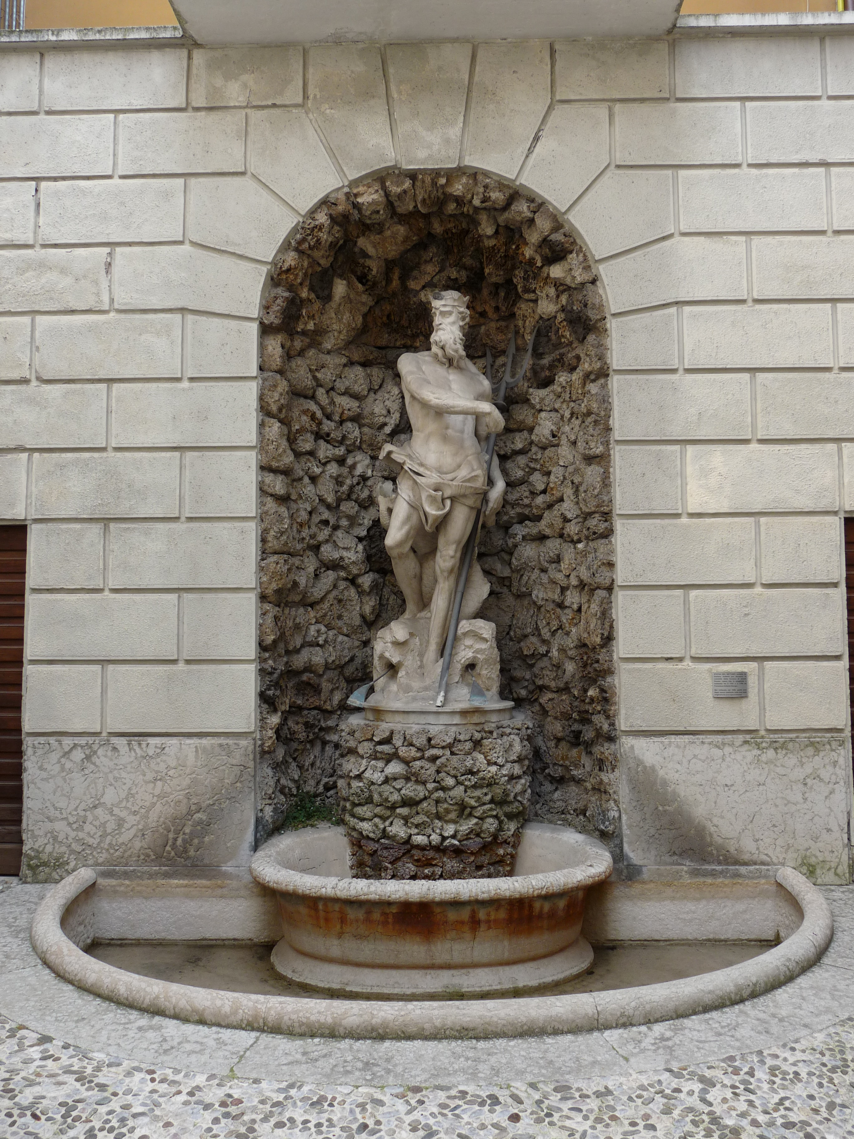 Trento (Italy): the original statue of Neptune (Stefano Salterio da Como, XVIII century) that towered the fountain in piazza del Duomo, until it was replaced by a bronze copy shortly after 1940. The original statue has then been placed inside the nearby town hall (Palazzo Thun). The plaque on the right reads: “STATUE OF NEPTUNE, sculpted by Stefano Salterio to decorate the top of the fountain in piazza Duomo – work designed and realized between 1767 and 1769 by Francesco Antonio Giongo–.Placed here in 1940, it has been replaced a few years later in its original location by a bronze copy.”— in: STATUA DEL NETTUNO, scolpita da Stefano Salterio per decorare la sommità della fontana di piazza Duomo – opera che fu progettata e realizzata tra il 1767 e il 1769 da Francesco Antonio Giongo–. Qui collocata nel 1940, pochi anni dopo venne sostituita nella sua sede originaria da una copia in bronzo.